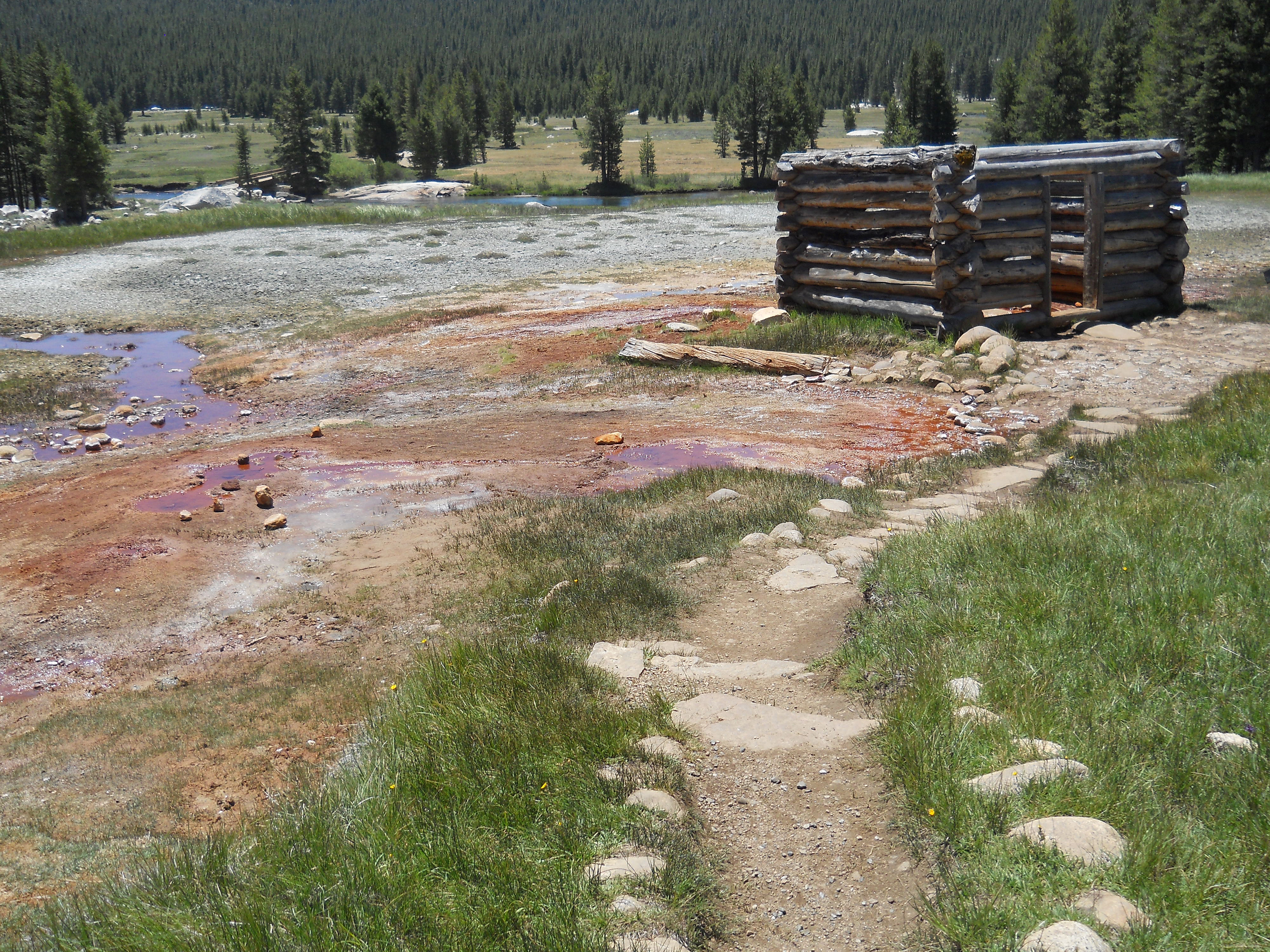 Soda Springs Cabin — the springs are both inside and outside the cabin. In Tuolumne Meadows. On the National Register of Historic Places in Yosemite National Park.